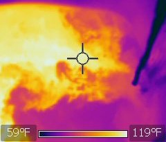 Thermal image of a sink full of hot water, with cold water being added, showing the how the two do not readily mix.